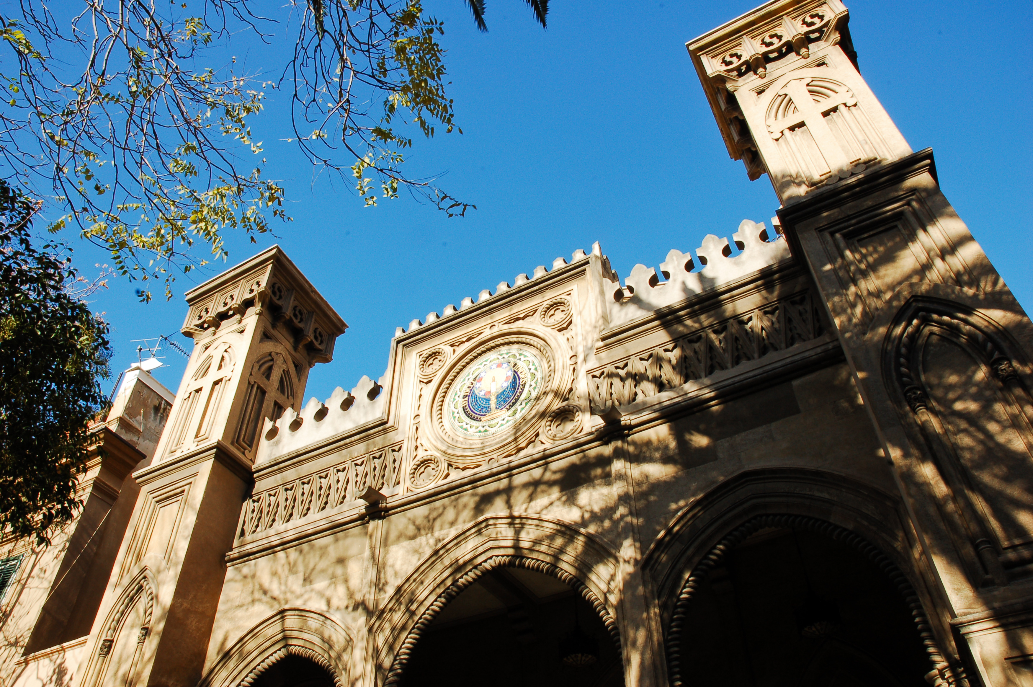 Church exterior. Palermo. Sicilia. Italy